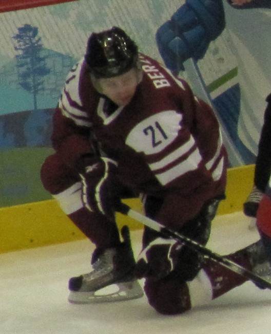 Slovakia vs Latvia @ Canada Hockey Place